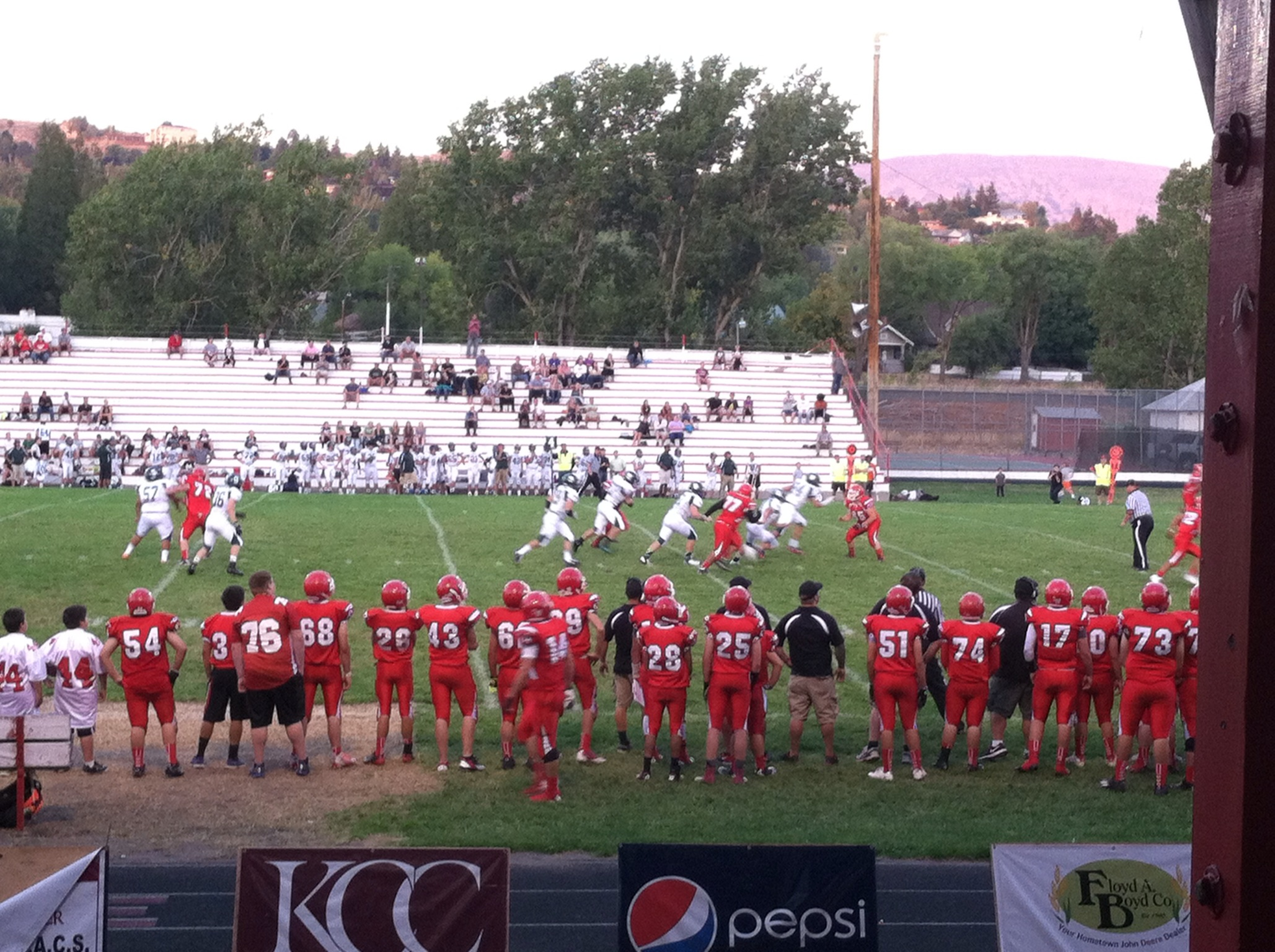 Part of a play during Klamath Union football game.